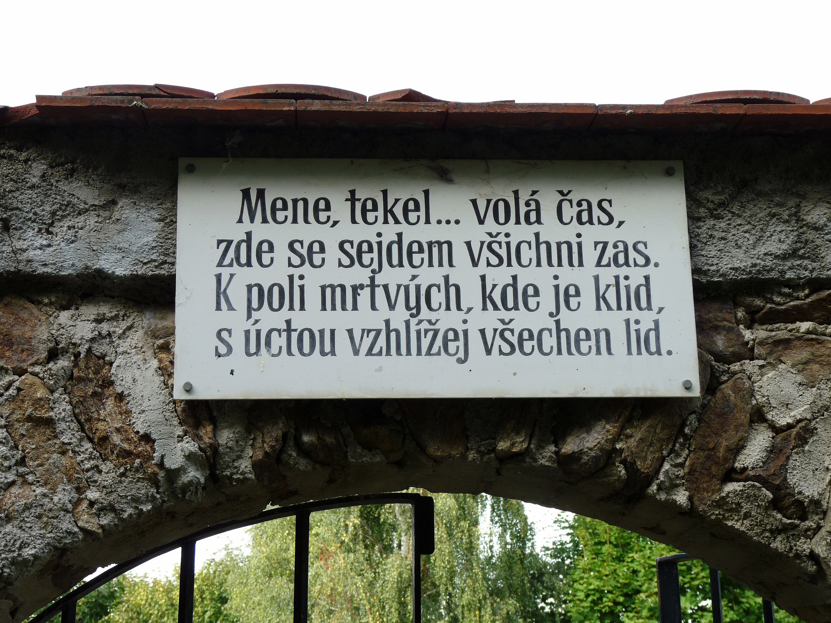 Sign above the entrance to the Jewish cemetery in the town of Vlachovo Březí, Prachatice District, Czech Republic